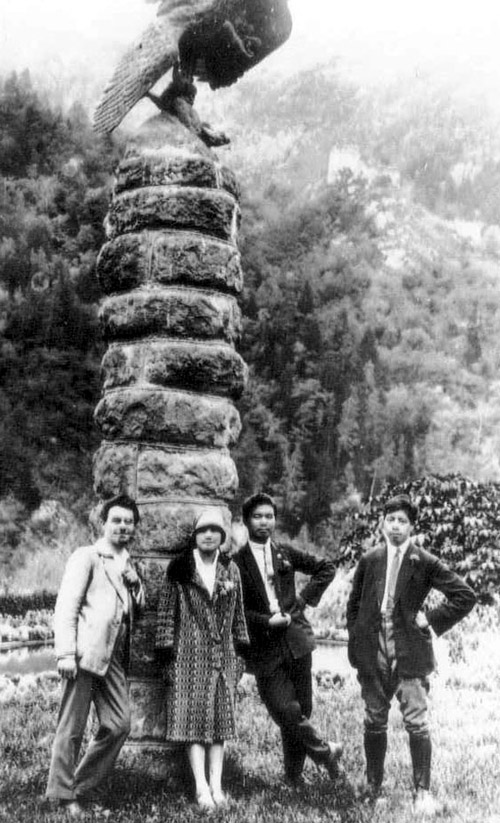 Soong Ching Ling with Deng Yan Da (second from right), a leader of Kuomintang leftists, in Moscow 1927.